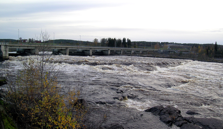 Funnefoss powerplant, Nes, Akershus, Norway.